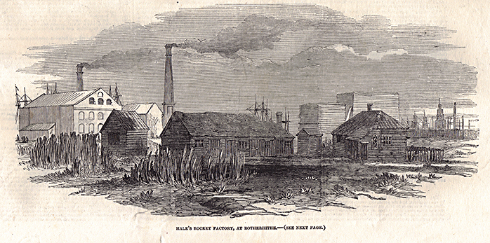 Hales's rocket facktory, ROTHERHITHE